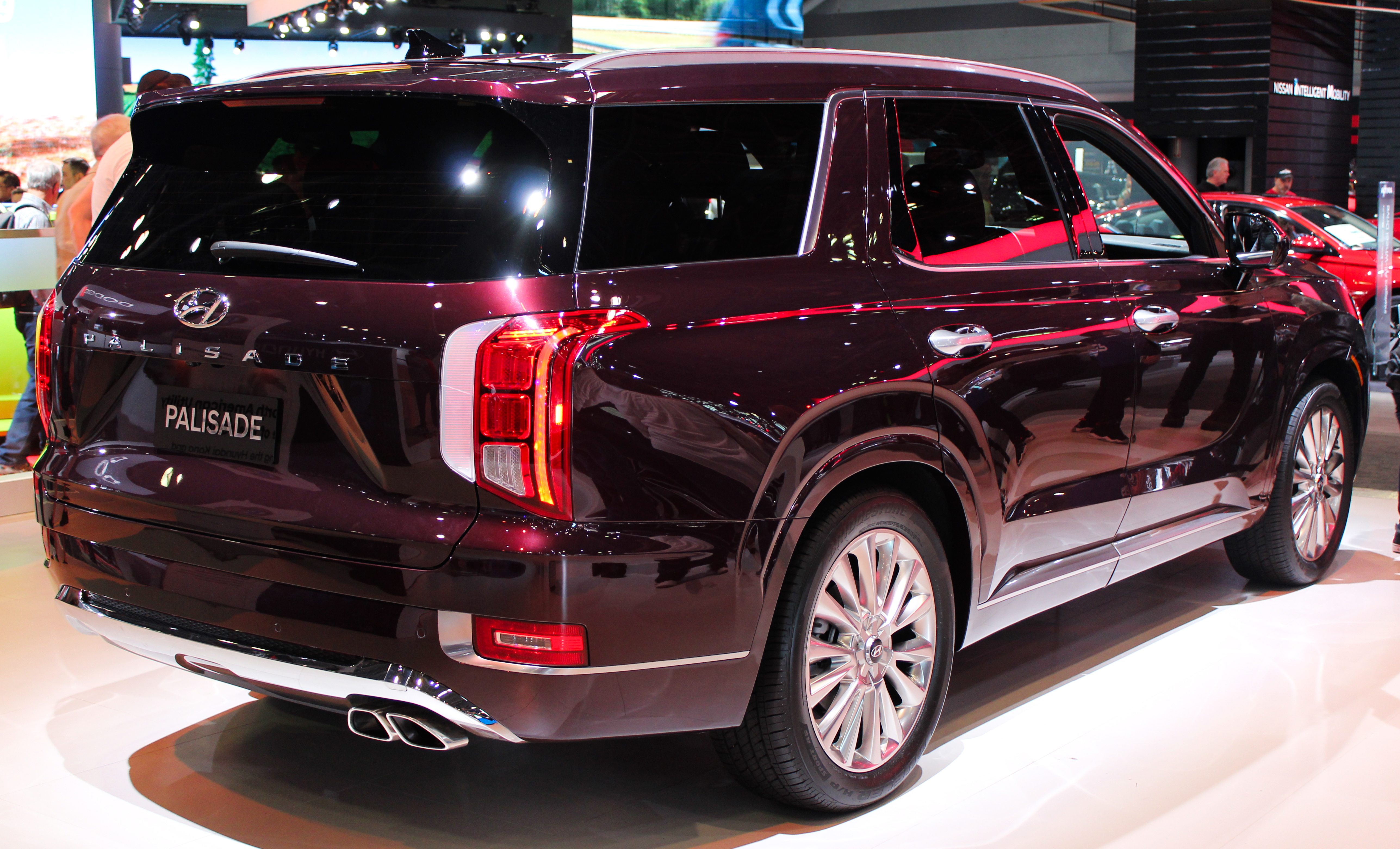 A 2019 or 2020 Hyundai Palisade photographed during the 2019 New York International Auto Show, in Hudson Yards, Manhattan, NYC